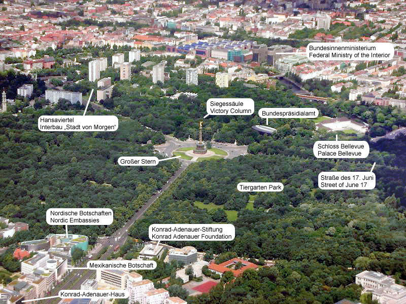 Berlin-Tiergarten park with the 'victory column' in the middle with comments